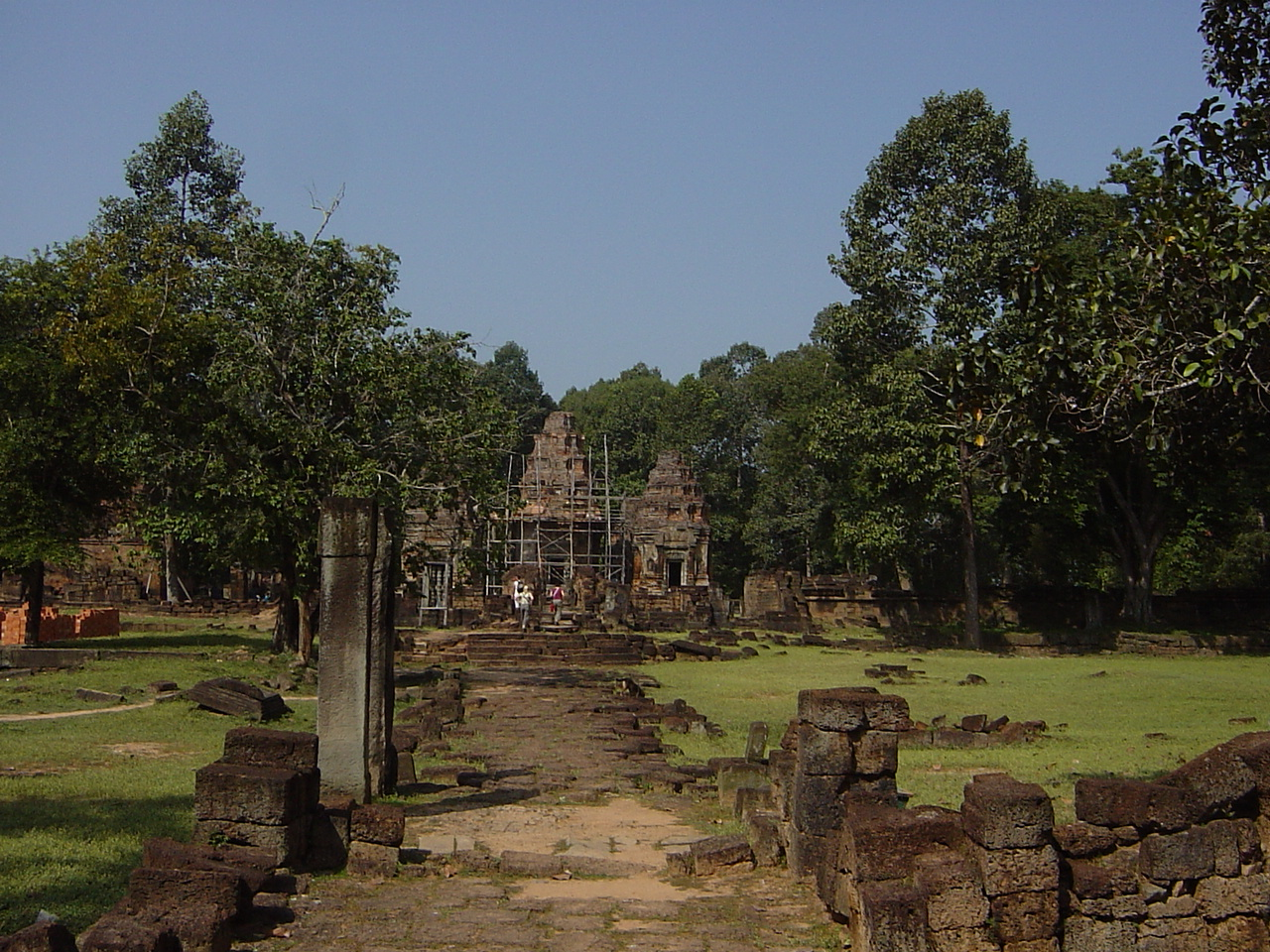 Preah Ko temple, Roluos group, Angkor site, end of 9th century